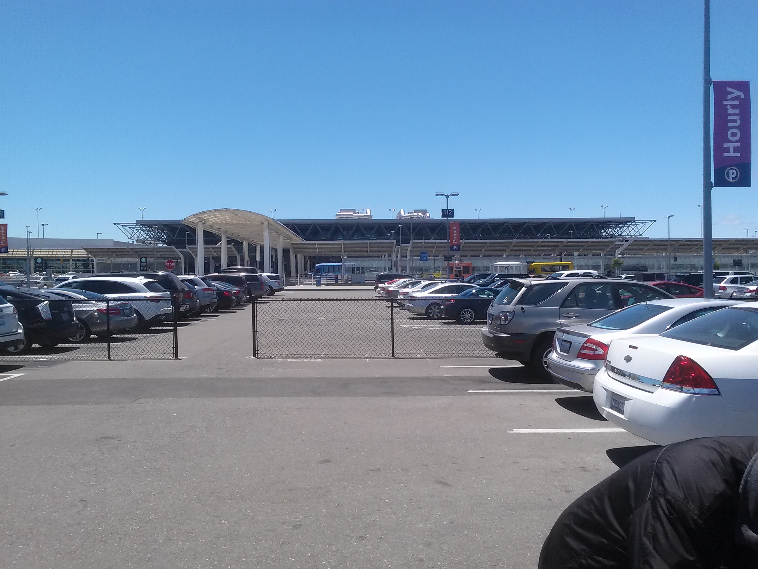 Oakland International Airport Terminal 2